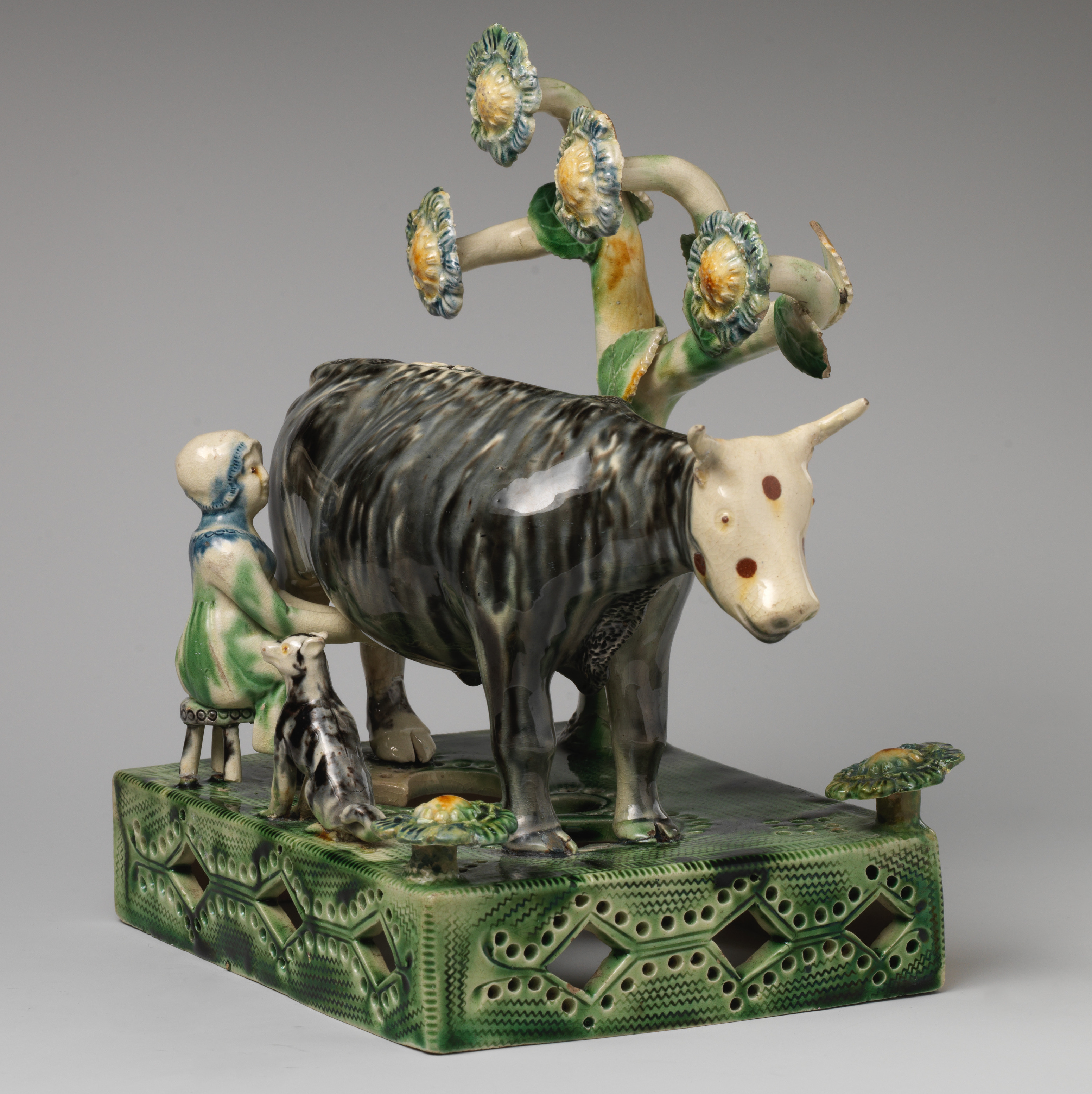 British, Staffordshire; Group; Ceramics-Pottery